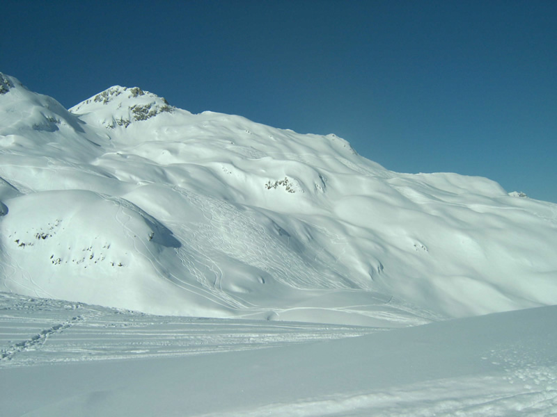 Juppenspitze near Lech, Austria.